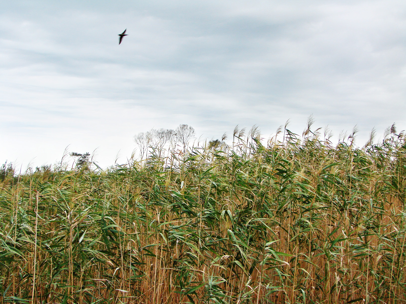 Phragmites Juybar iran